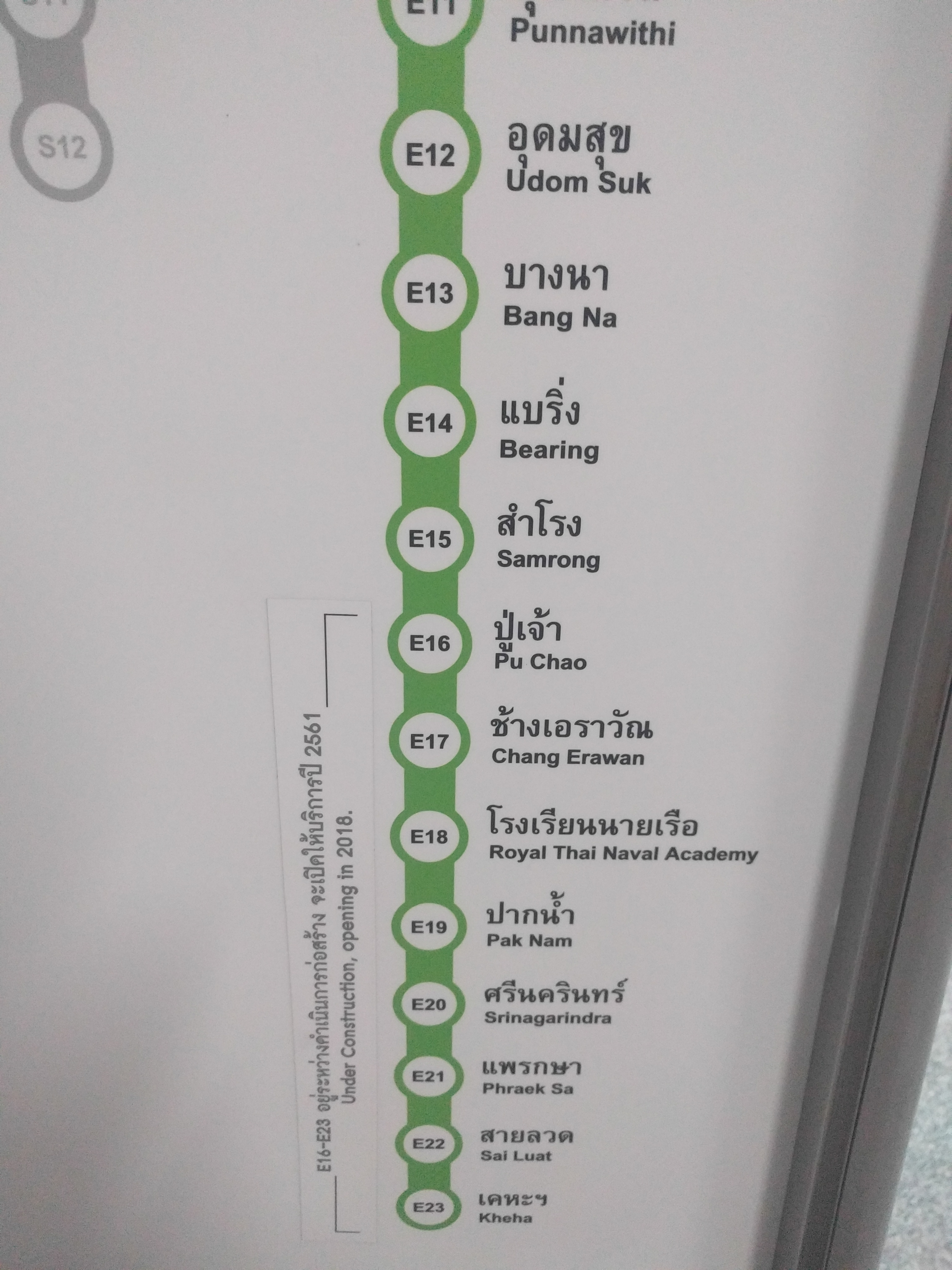 This station map located at Thong Lo BTS station shows the future expansion plans for the Sukhumvit Line